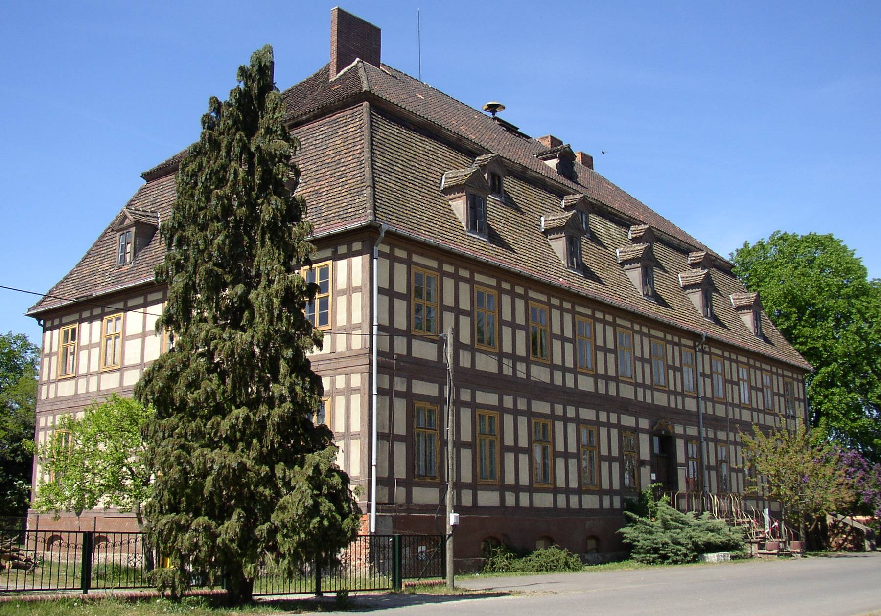 Manor house in Groß Jehser (Calau) in Brandenburg, Germany